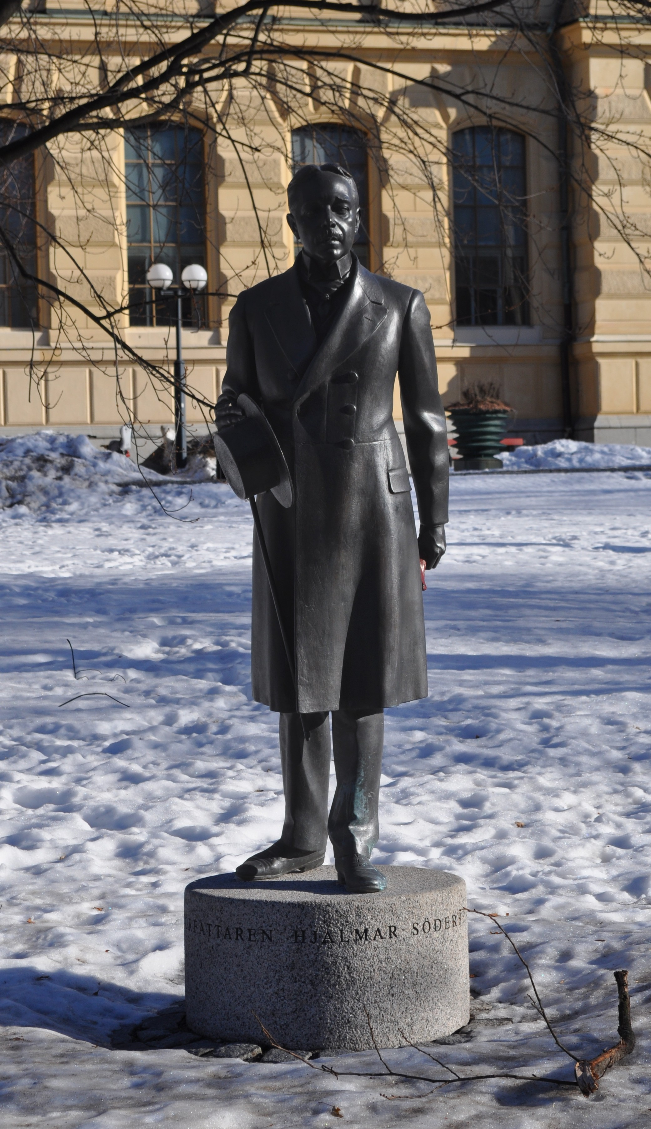 Sculpture of Hjalmar Söderberg, located in Humlegården